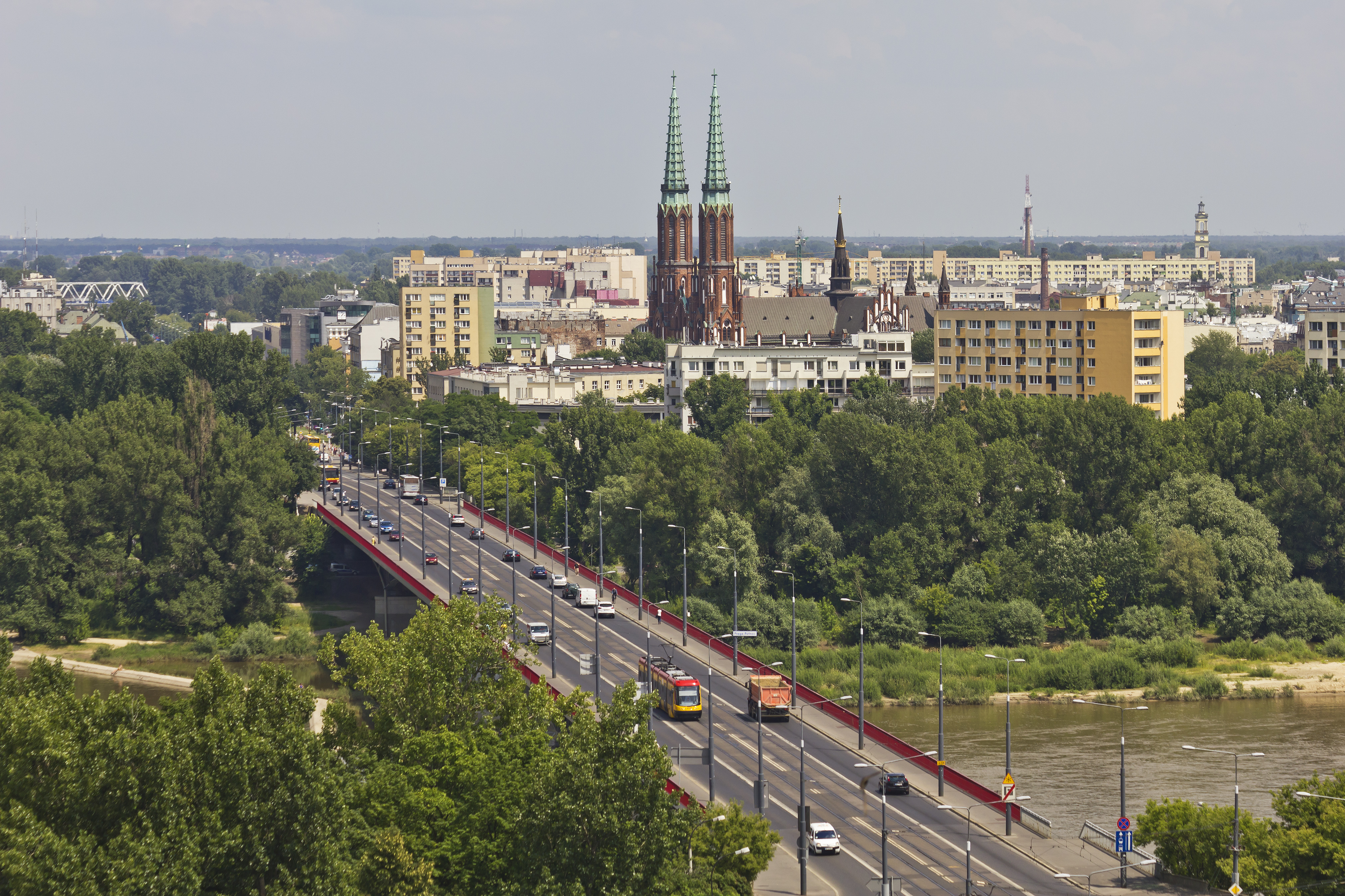 View from the St. Anne Church tower at Castle Square in the Old Town (Stare Miasto) in Warsaw (Poland). In the background: Saint Florian Church.